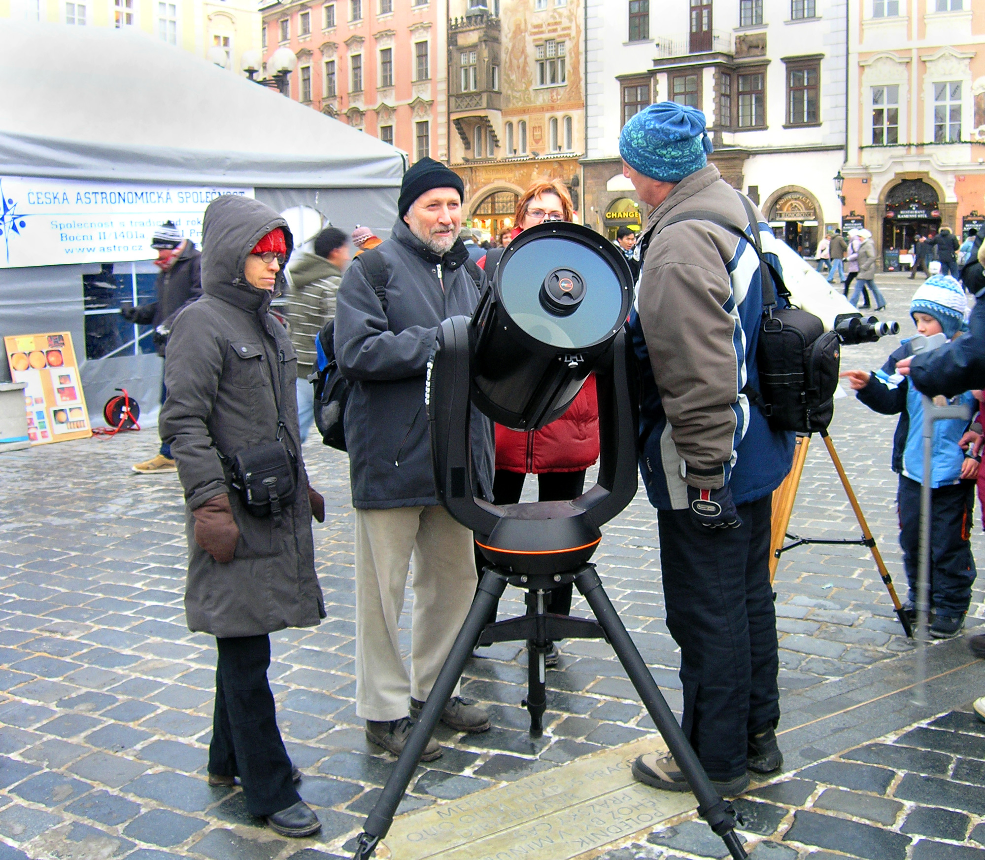 Launch of the International Year of Astronomy in the European Union, Czech Republic